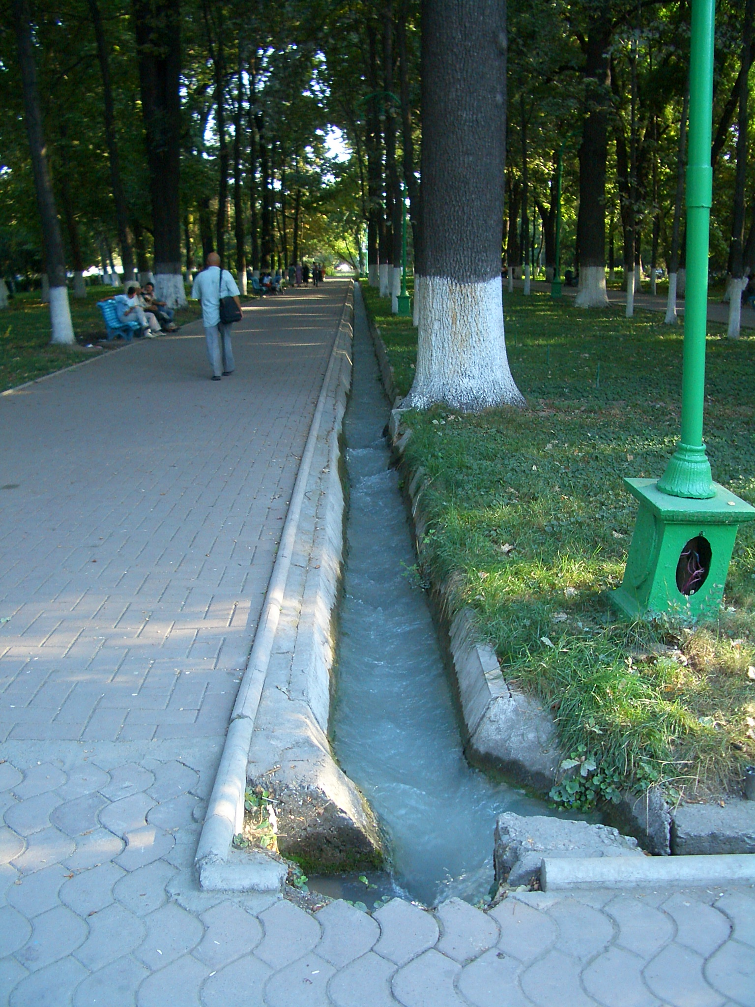 A small aryk (irrigation channel), used for watering vegetation in Erkindik Blvd.